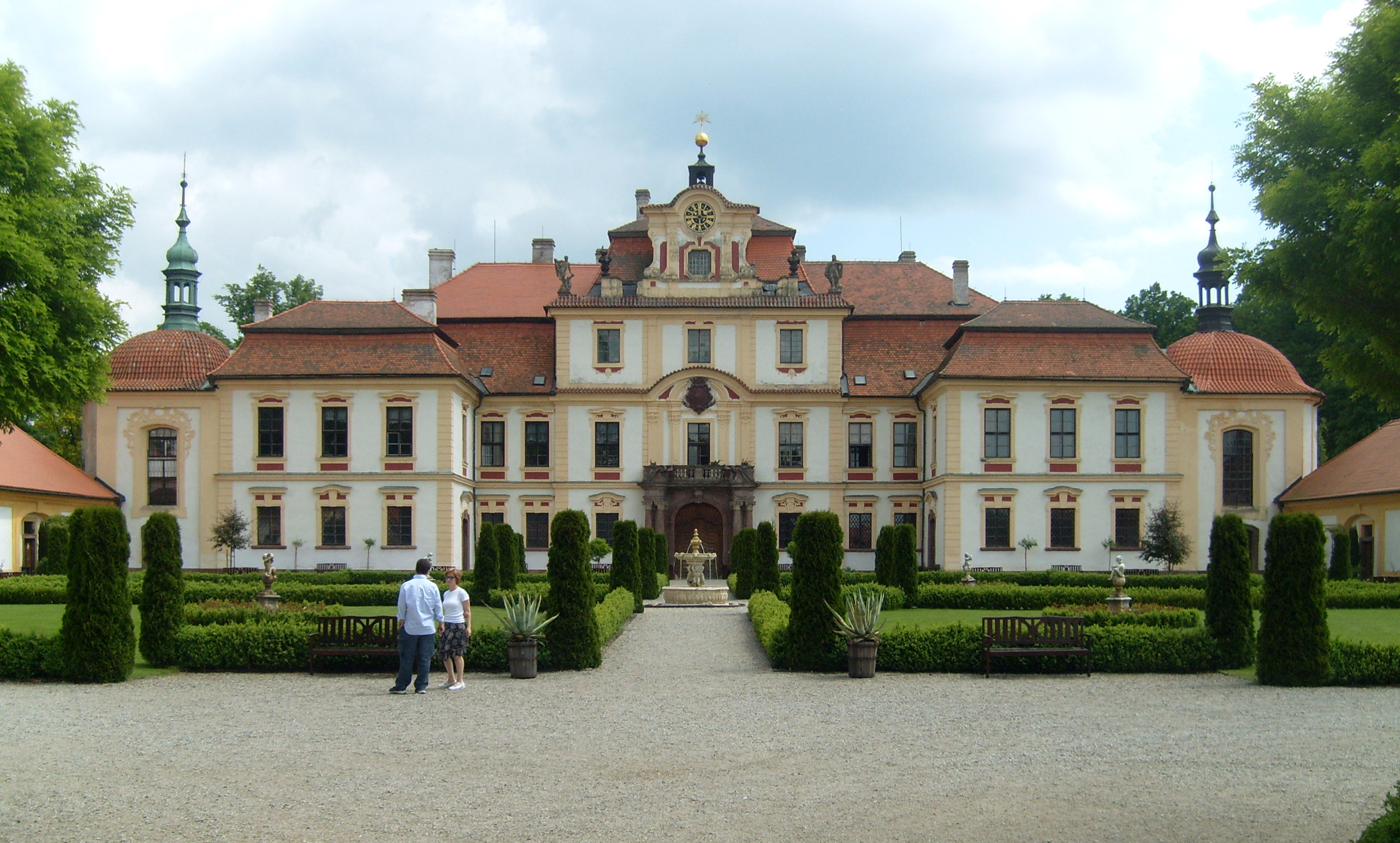 Jemniště castle